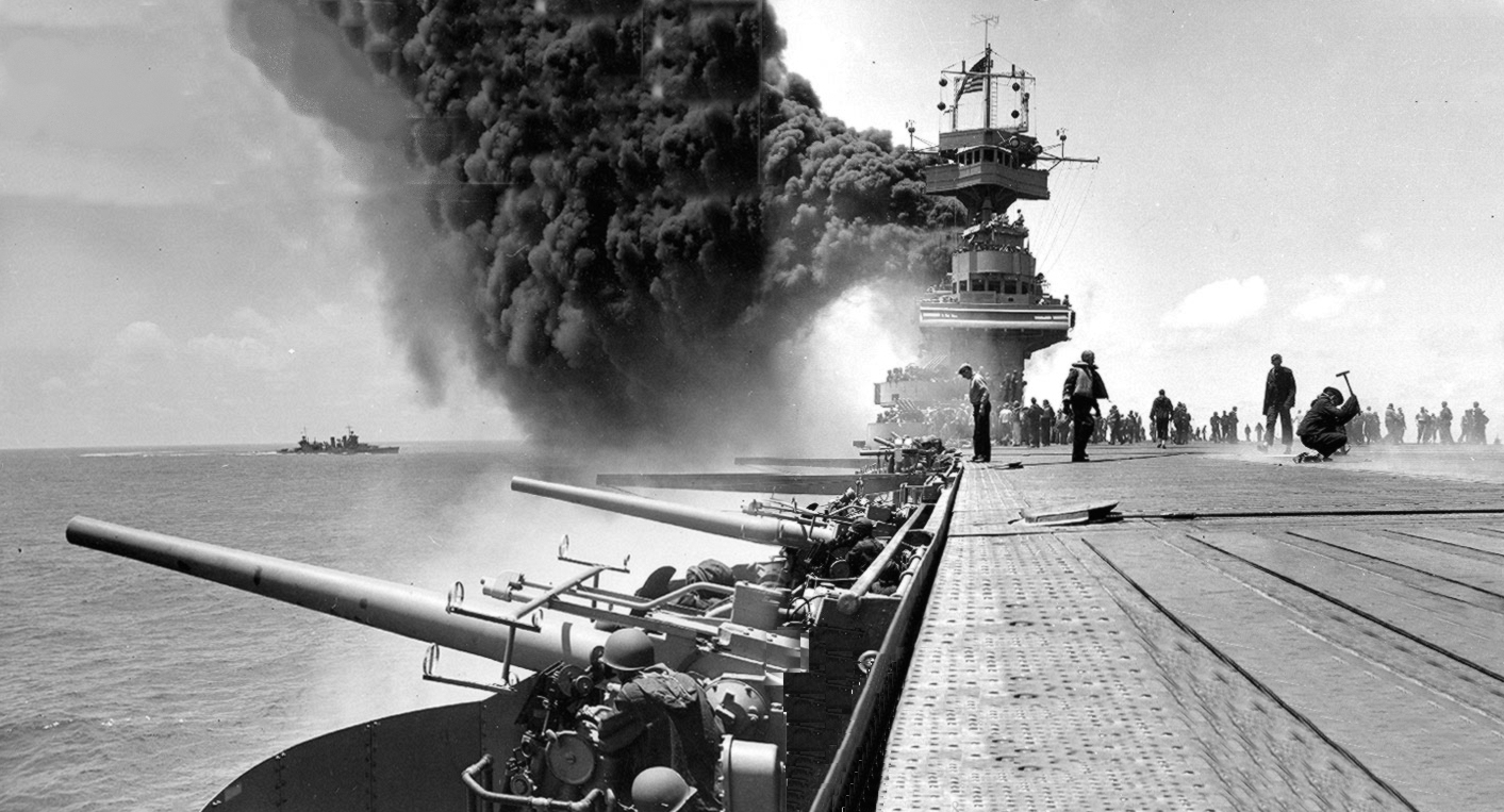 Scene on board the U.S. Navy aircraft carrier USS Yorktown (CV-5) during the Battle of Midway, shortly after she was hit by three Japanese bombs on 4 June 1942. Dense smoke is from fires in her uptakes, caused by a bomb that punctured them and knocked out her boilers. A man with hammer at right is probably covering a bomb entry hole in the forward elevator. Note arresting gear cables and forward palisade elements on the flight deck; CXAM radar antenna, large national ensign and YE homing beacon antenna atop the foremast; 12.7 cm/38, 12.7 mm caliber and 28 mm guns manned and ready at left. The heavy cruiser USS Astoria (CA-34) is visible on the left.